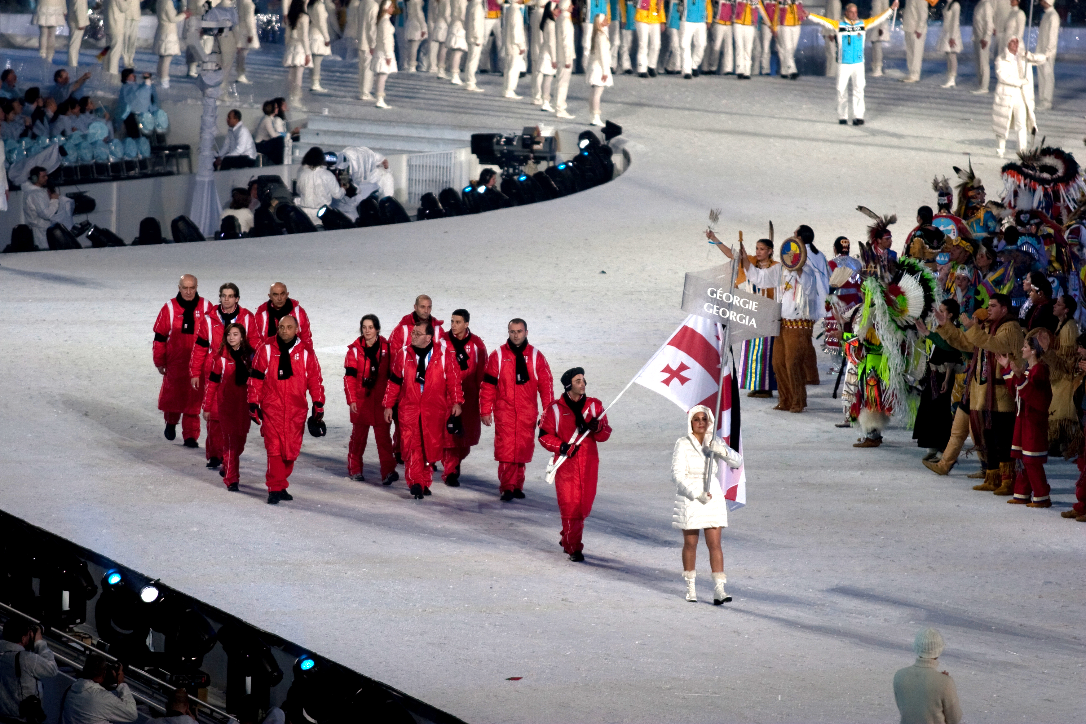 The athletes from Georgia entering the stadium at the opening ceremonies of the 2010 Winter Olympics. Note the black armbands and the black ribbon on the top of the flag - this is memory of Nodar Kumaritashvili, who had died in a training accident on the luge course.